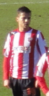 Harry Forrester of Brentford FC during a match versus Chelsea FC in January 2013.